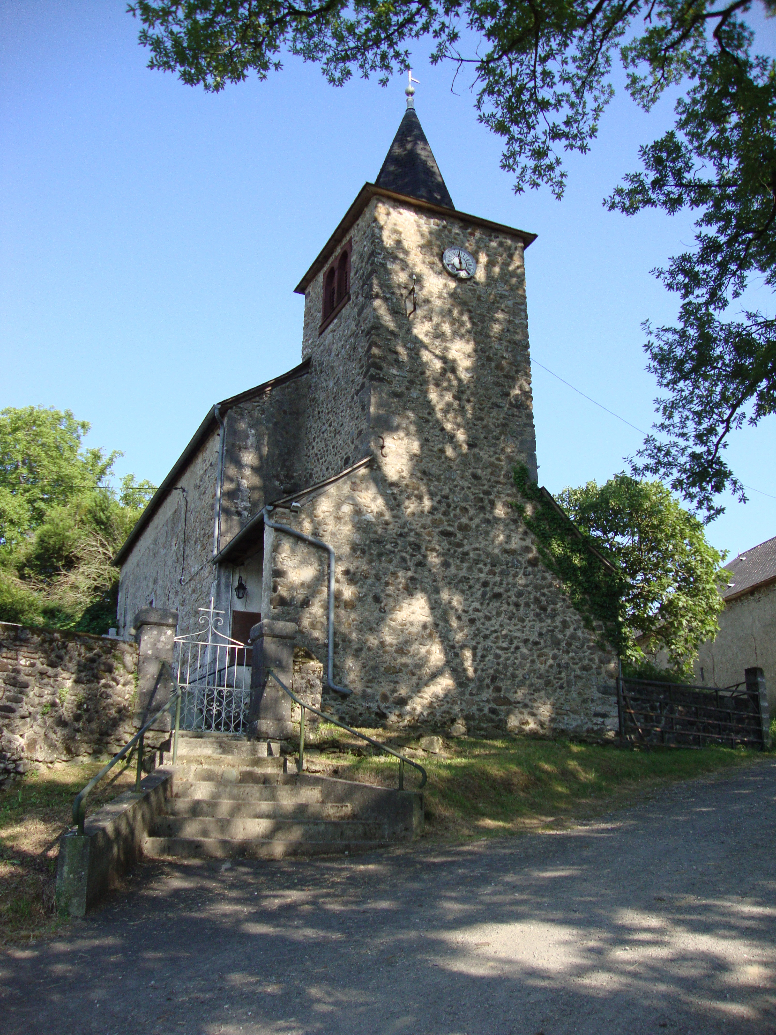 Sibas (Alos-Sibas-Abense, Pyr-Atl, Fr) church under the shadow of trees